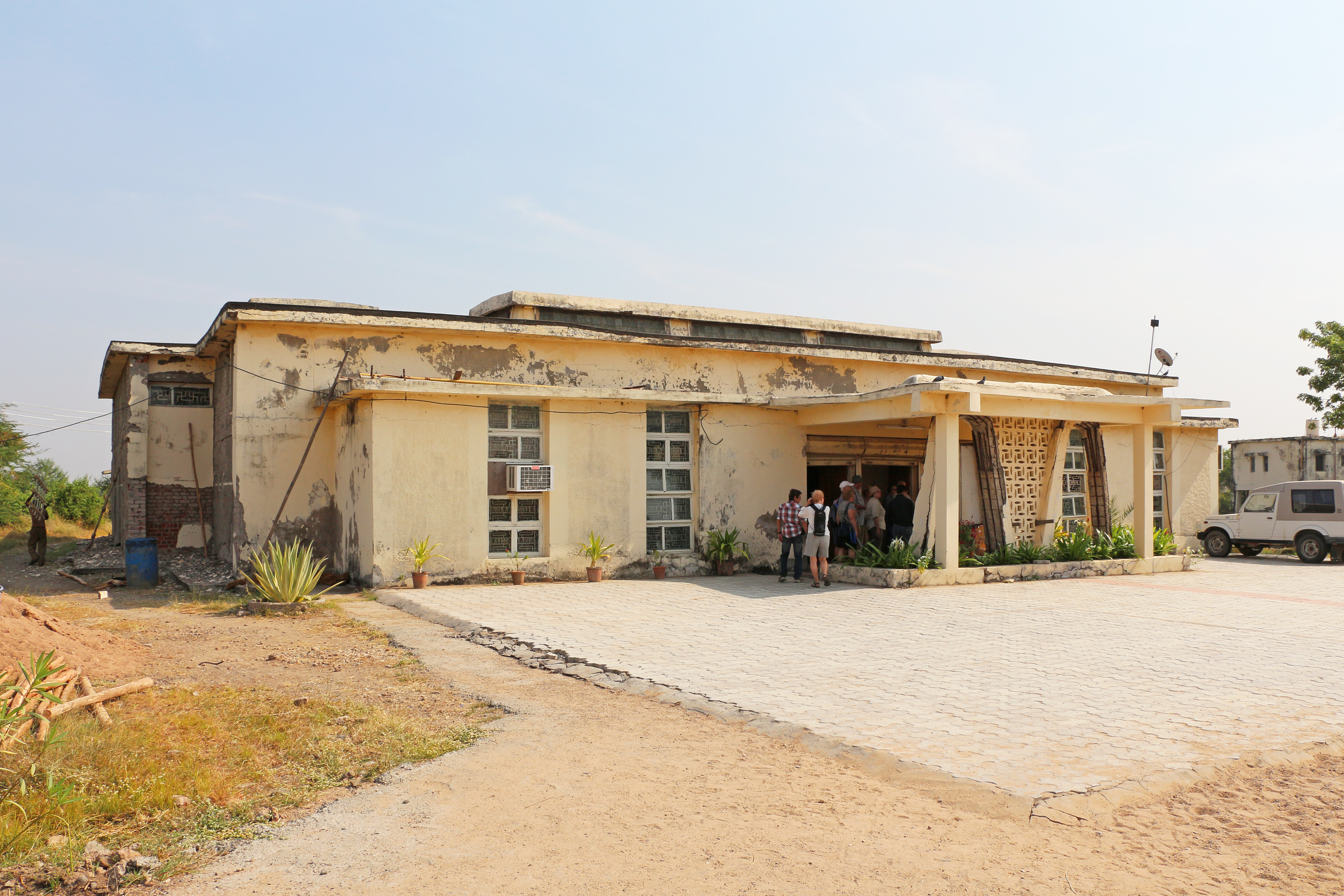 Archaeological Museum of Lothal, India